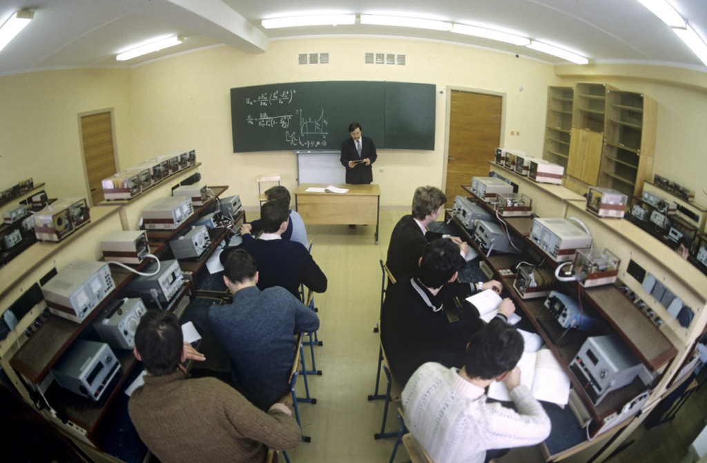 “Students of Obninsk Institute of Nuclear Energy”. Students at physics lesson at Obninsk Institute of Nuclear Energy.